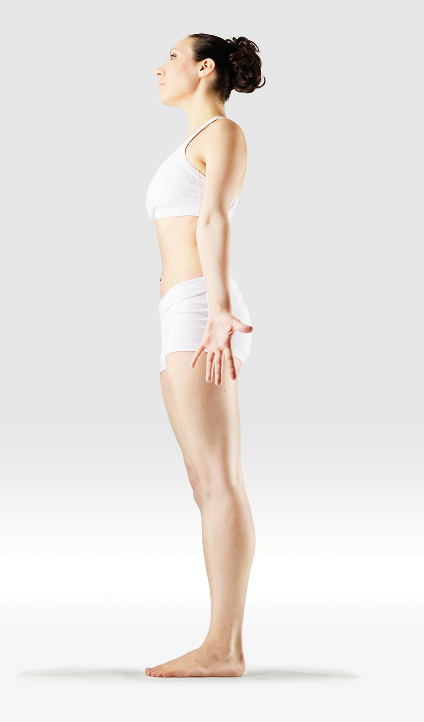 Mr-yoga-mountain-pose-1